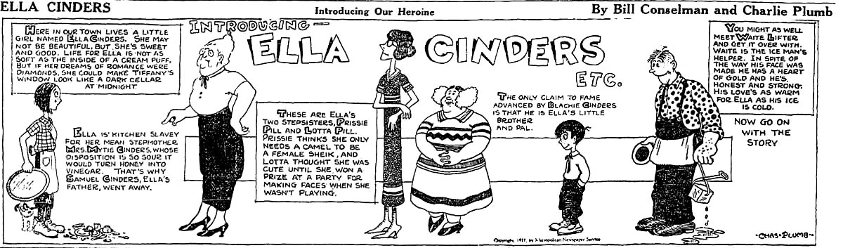 Comic strip "Ella Cinders". A search for renewal was done in contributions to publications and in artwork for the years 1952 and 1953. There were no listings for the name "Ella Cinders"; there's no evidence this is still under copyright.